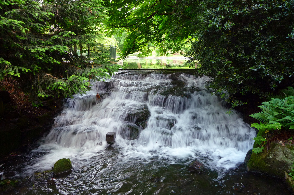 Grove Park Cascade, Carshalton. This held back water to power Upper Mill.